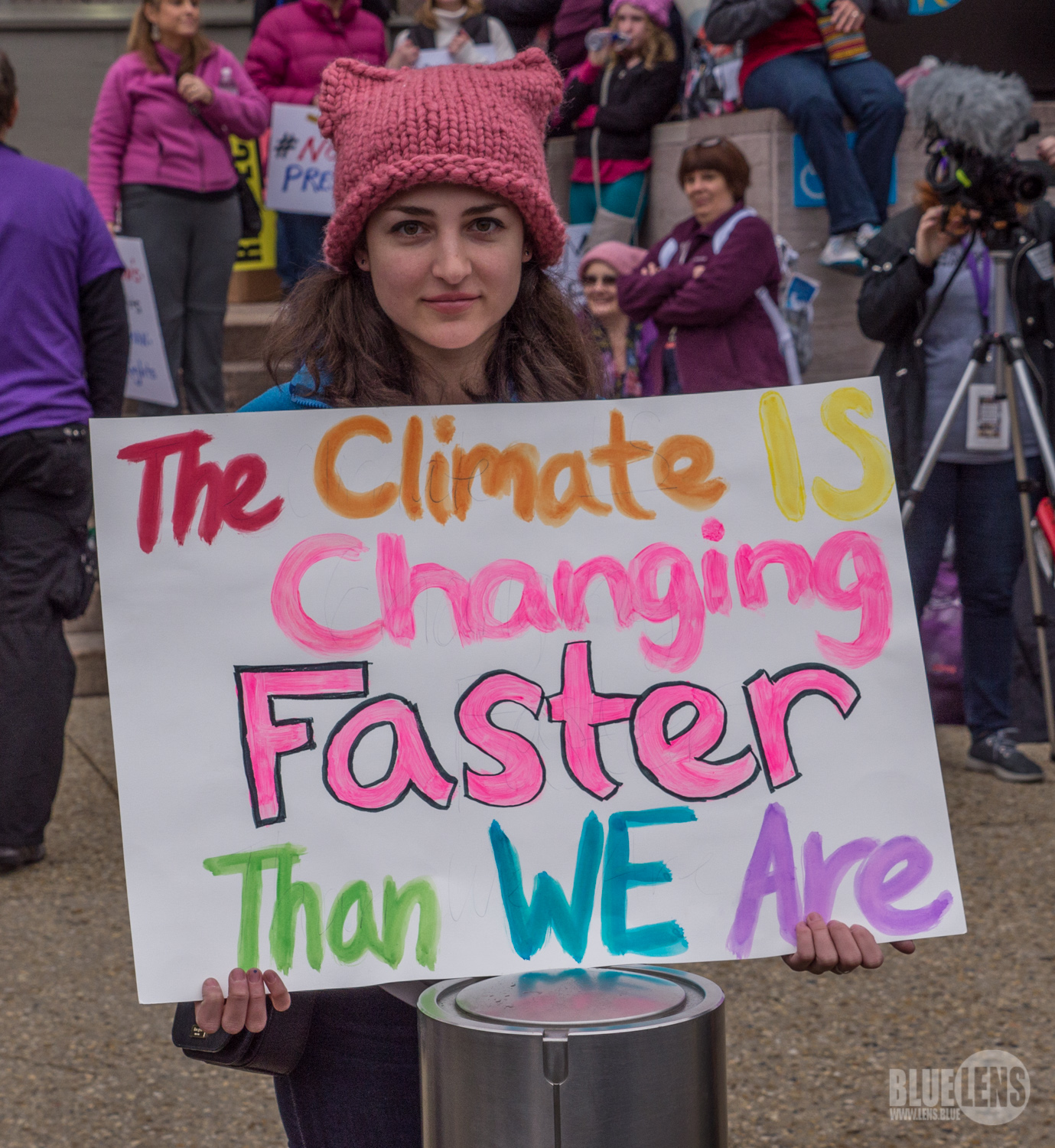 Trump-WomensMarch_2017-1510022